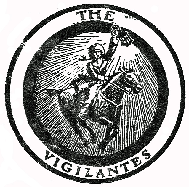 The Vigilantes seal from the cover of Fifes and Drums (1920) by The Vigilantes (various).